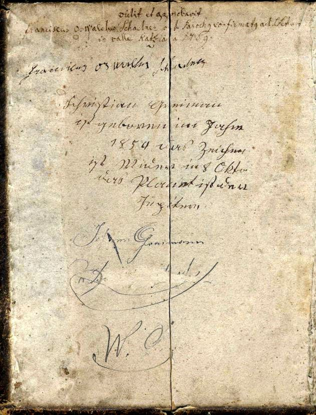 Permission for usage as Roman Catholic bible in the time of Counter-Reformation. The book was printed in Vienna and was persited in Carinthia / Austria / European Union.